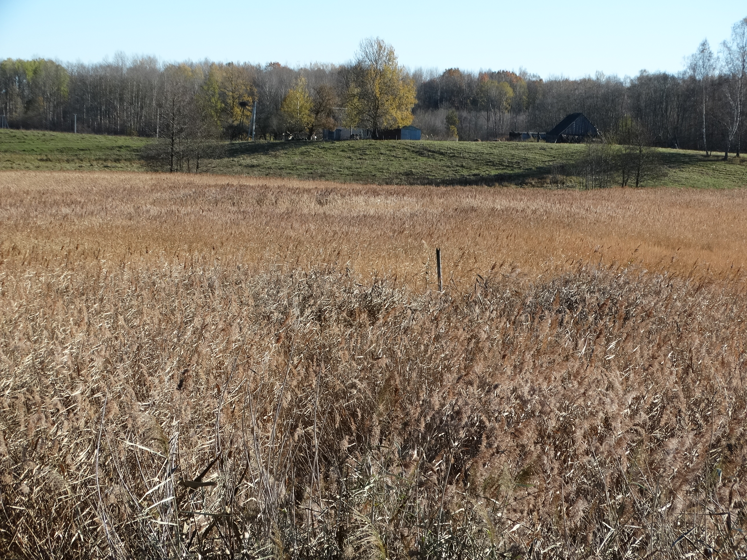 Žiupa, Prienai District, Lithuania